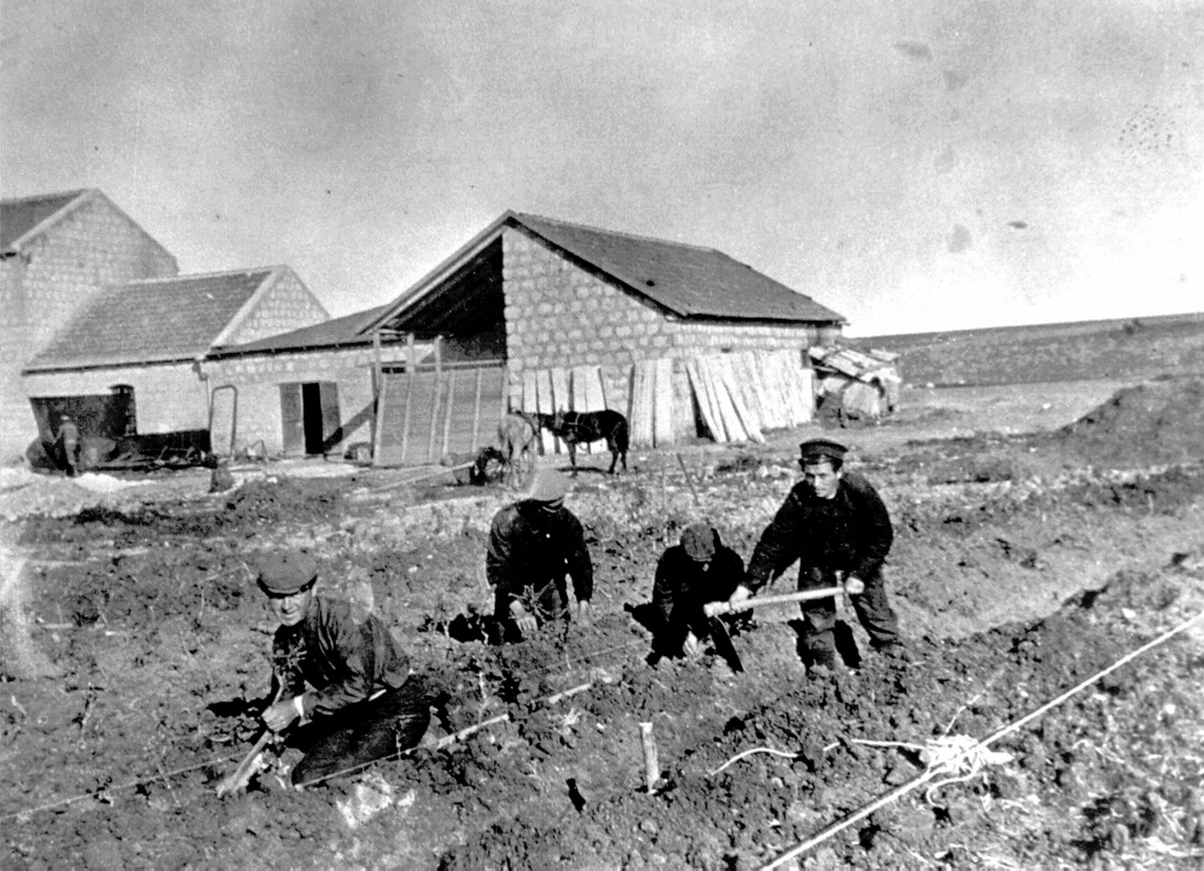 near Hadid" oil factory" near Haditha